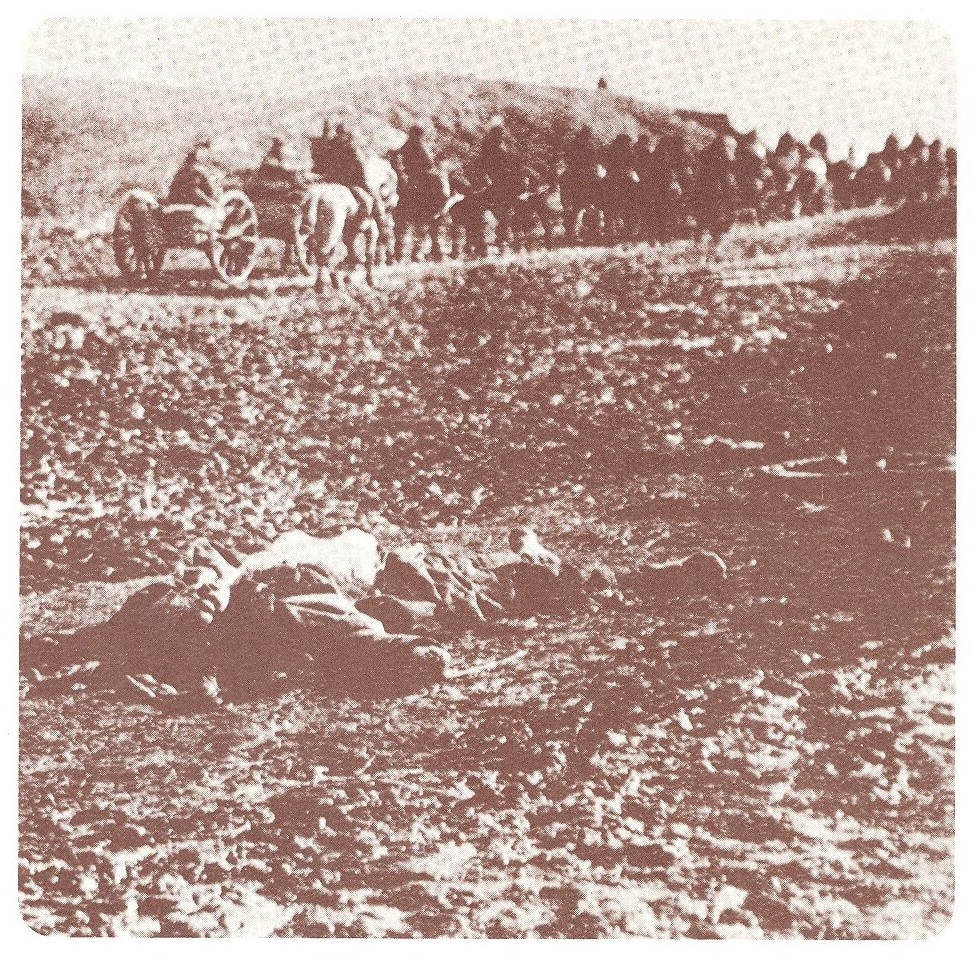 After Bitola battleСрпски (ћирилица): Призор после Битољске битке